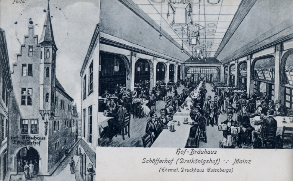 Picture of Hof Brauhaus Schöfferhof, Mainz external and internal views